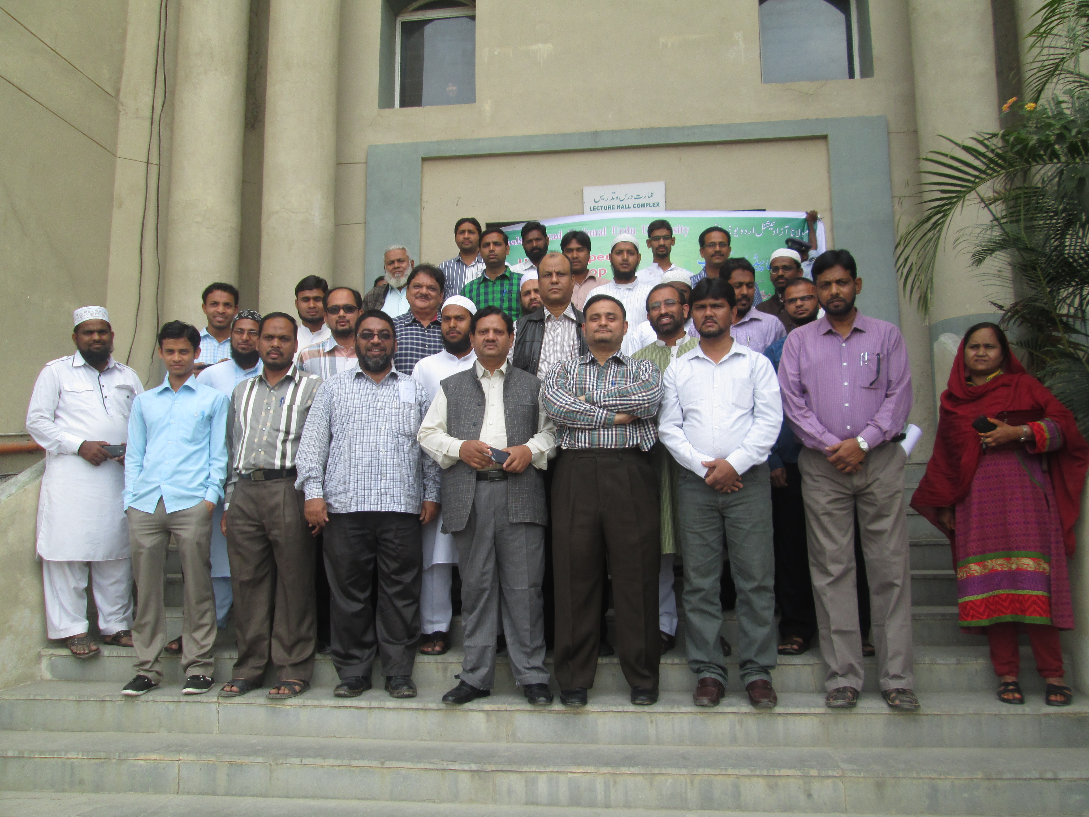 First Urdu Wikipedia Workshop at MANUU